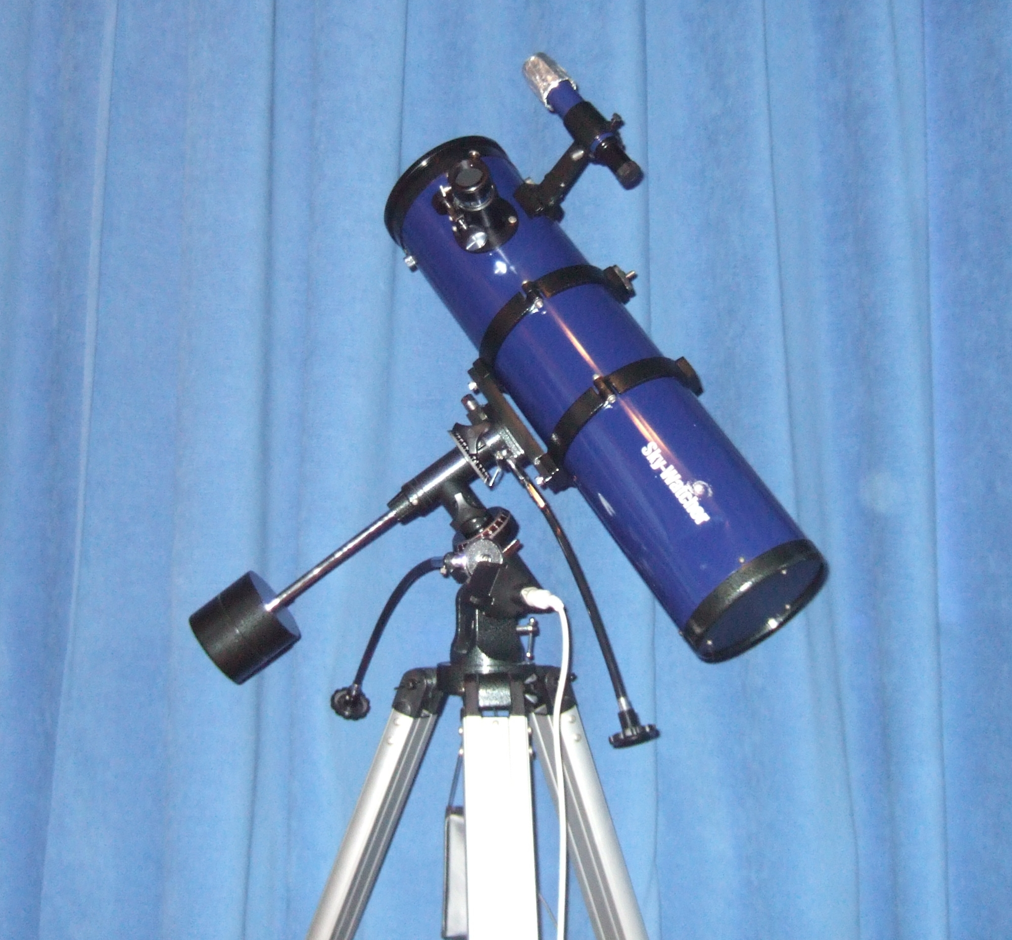 Un télescope Sky Watcher